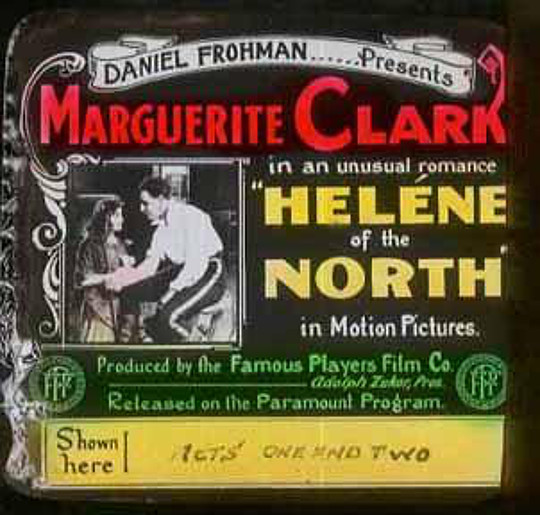 Lantern slide for Helene of the North